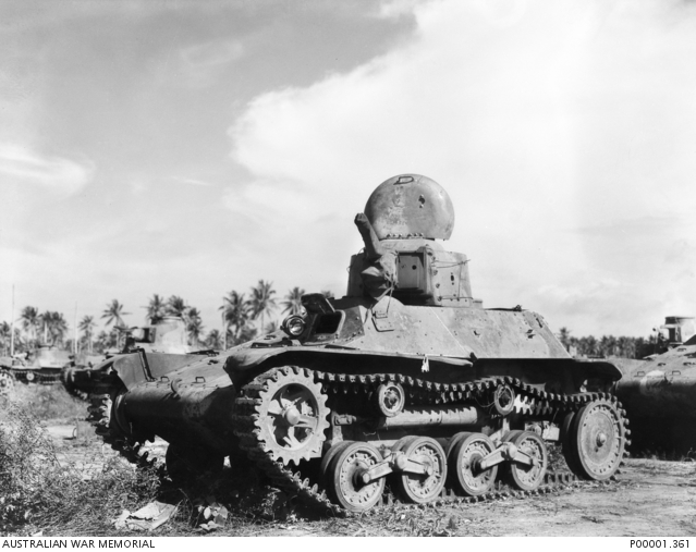 JAPANESE ARMY TYPE 97 'TE KE' TANKETTE PARKED ON THE GAZELLE PENINSULA. (RNZAF OFFICIAL PHOTOGRAPH.)